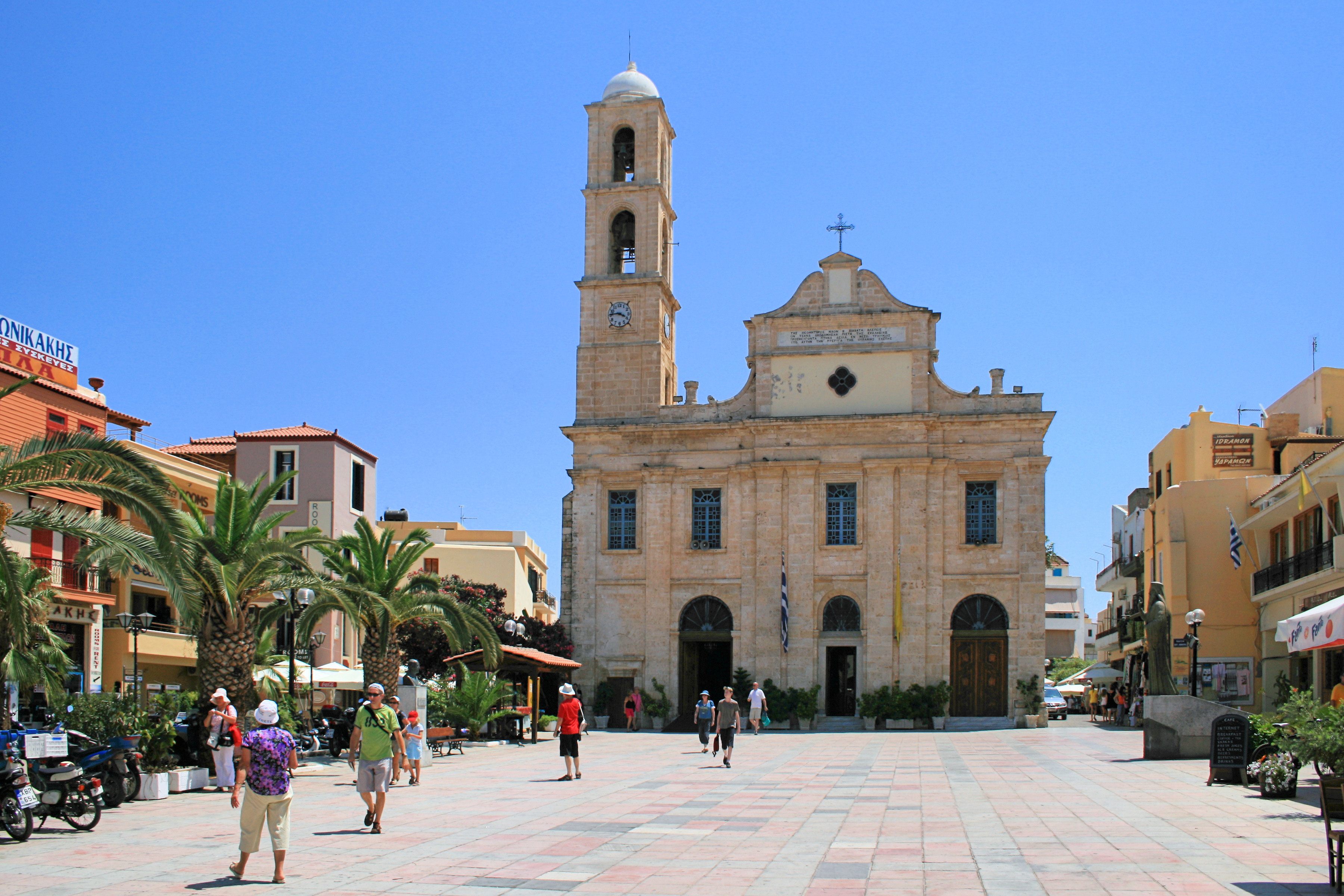 Chania on the island of Crete - The Greek Orthodox "Cathedral of the three martyrs"